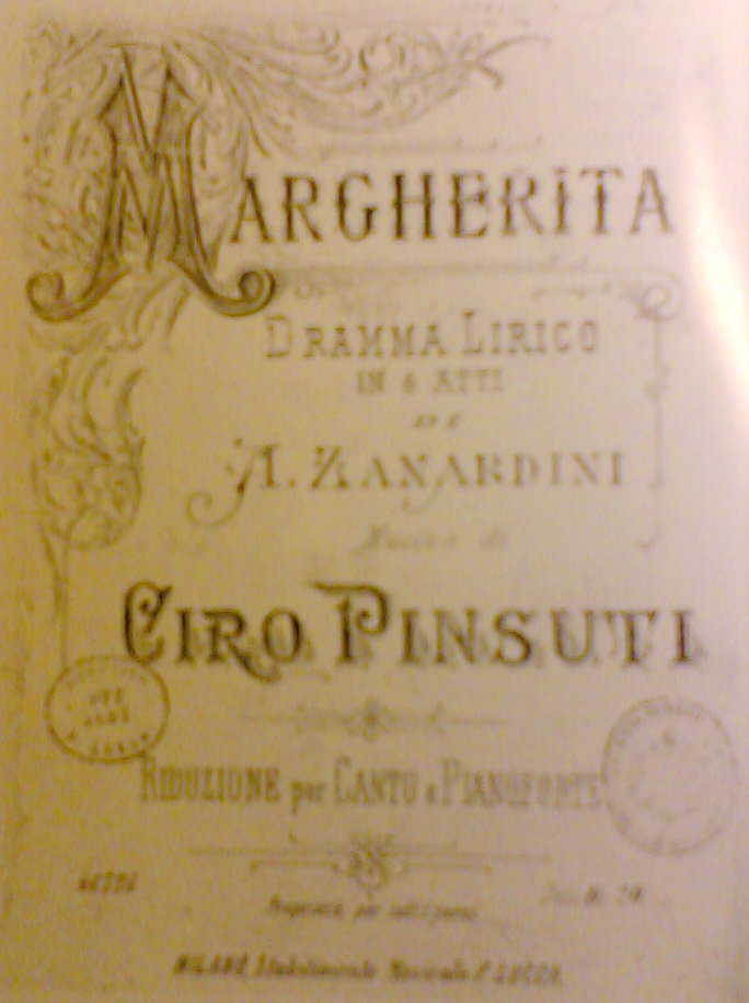 Cover of Ciro Pinsuti's (1829–1888) opera Margherita (1882).